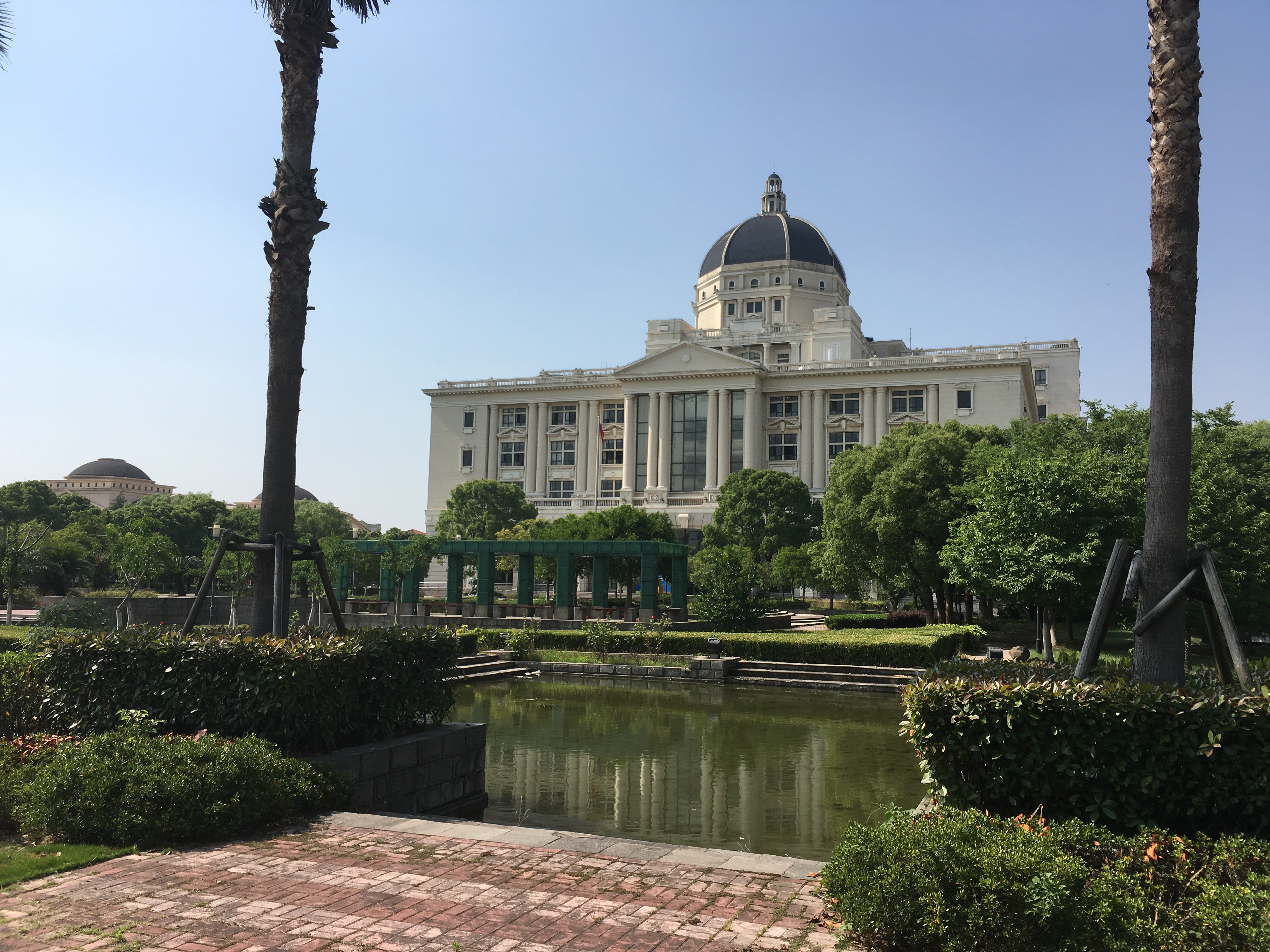 Library of Shanghai International Studies University, Songjiang Campus